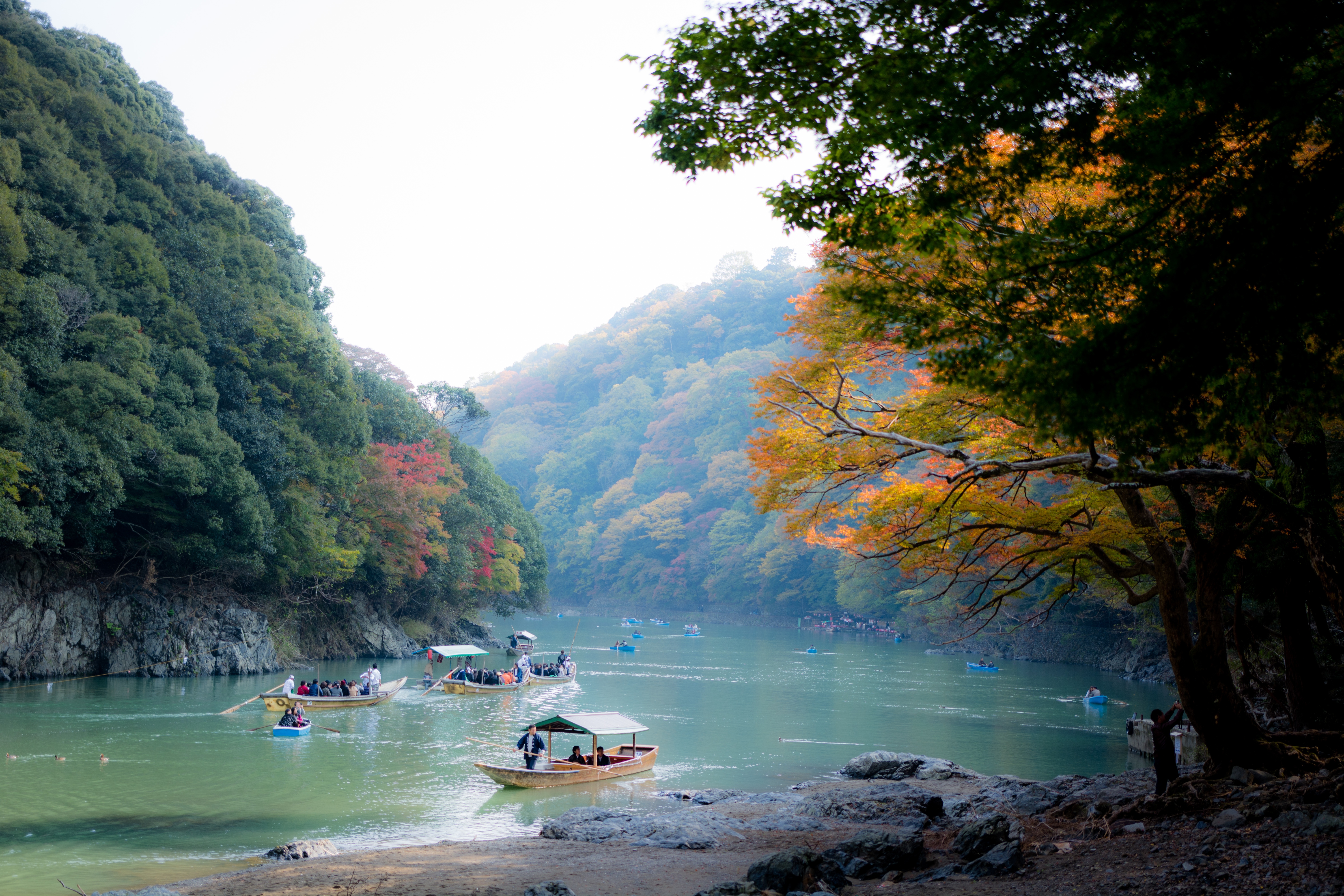 The view of Arashiyama was awesome, but there were too many people to concentrate on photography. 京都嵐山に初めて行きました。言われている通り景勝地ではありますが、人が多すぎてなかなか写真を撮るのが難しかったです。 [ Nikon D5200, Sigma 18-35mm f/1.8 DC HSM, 35mm, f/1.8, 1/400sec, ISO100, Lightroom 5 ]